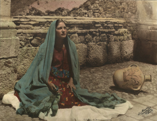 Seated woman with teal rebozo shawl on her head. Hand-colored photograph by Luis Marquez. See more photos by Marquez at